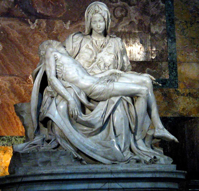 Pietà by Michelangelo, St. Peter's Basilica, Rome